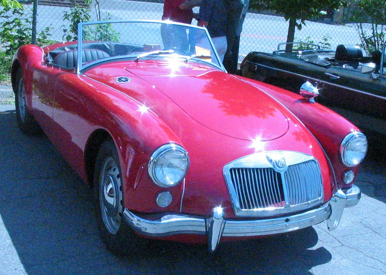 1956 MG MGA photographed in Laval, Quebec, Canada at the Auto classique Laval.